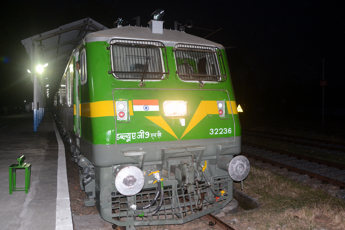 WAG-9H starting tractive effort of 51T, max speed 100KMPH, AC freight loco with crew friendly cab and energy regeneration features.